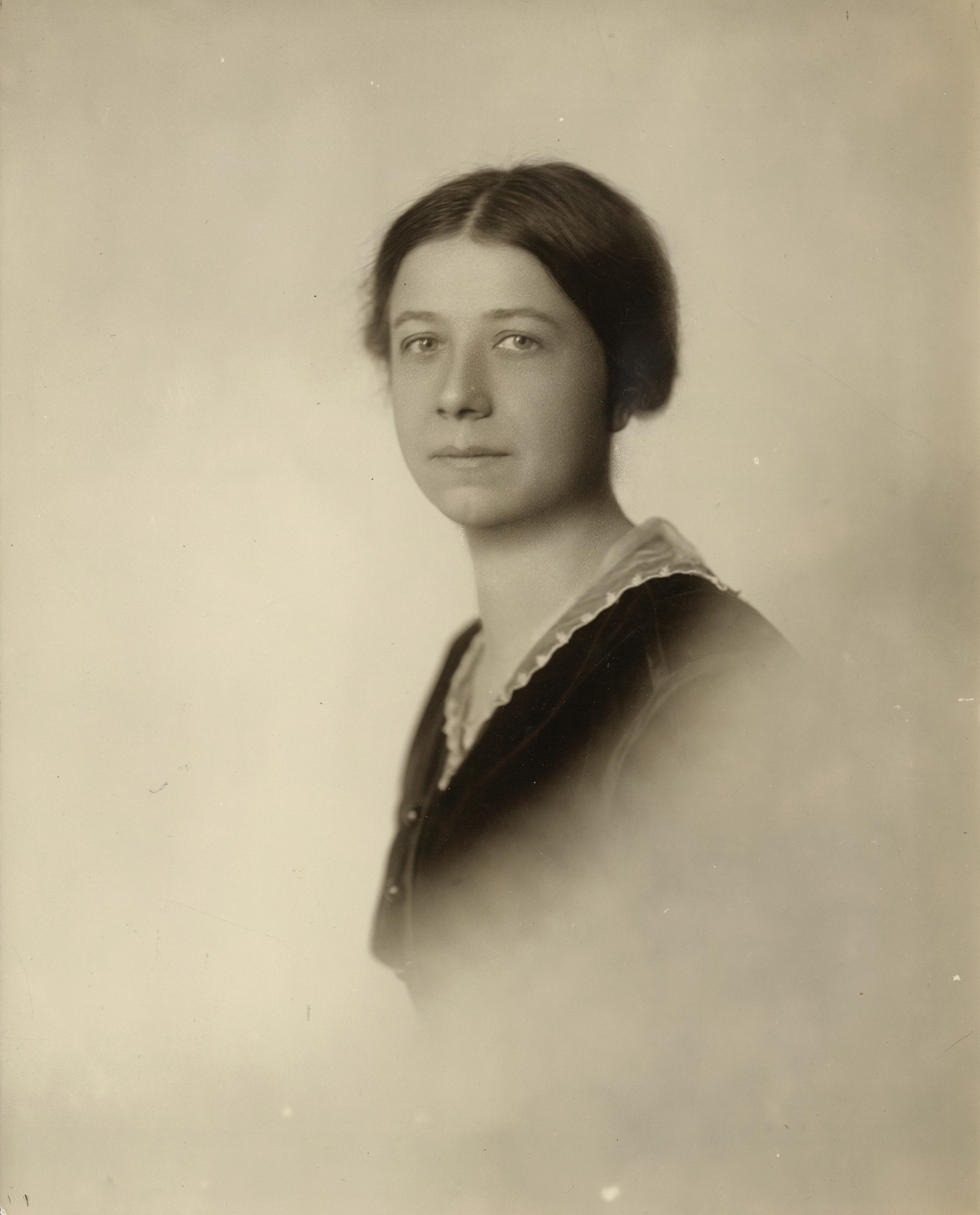 Photograph shows Mary Ritter Beard (1876–1958), an American historian and archivist.